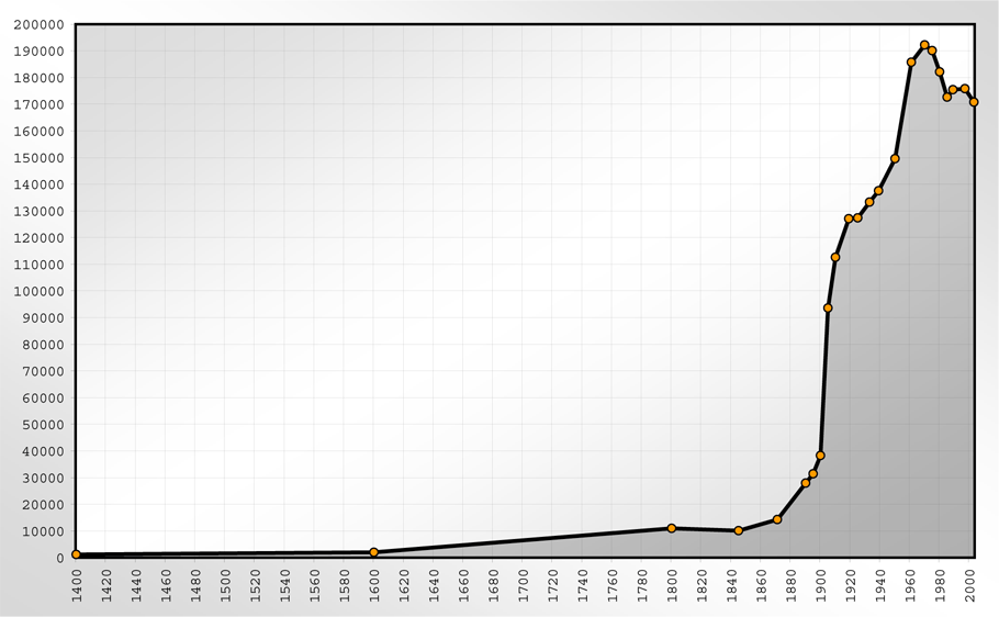 This image shows the population statistics of Mülheim an der Ruhr (Germany).